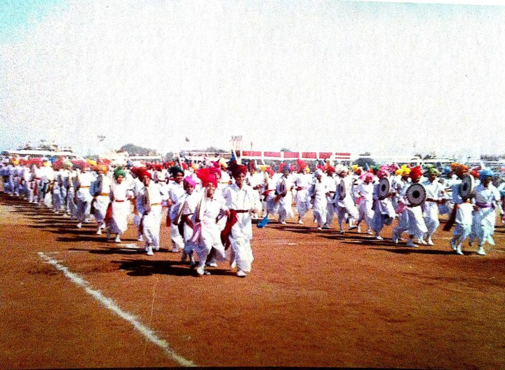 Dhamaal Dance at Rewa